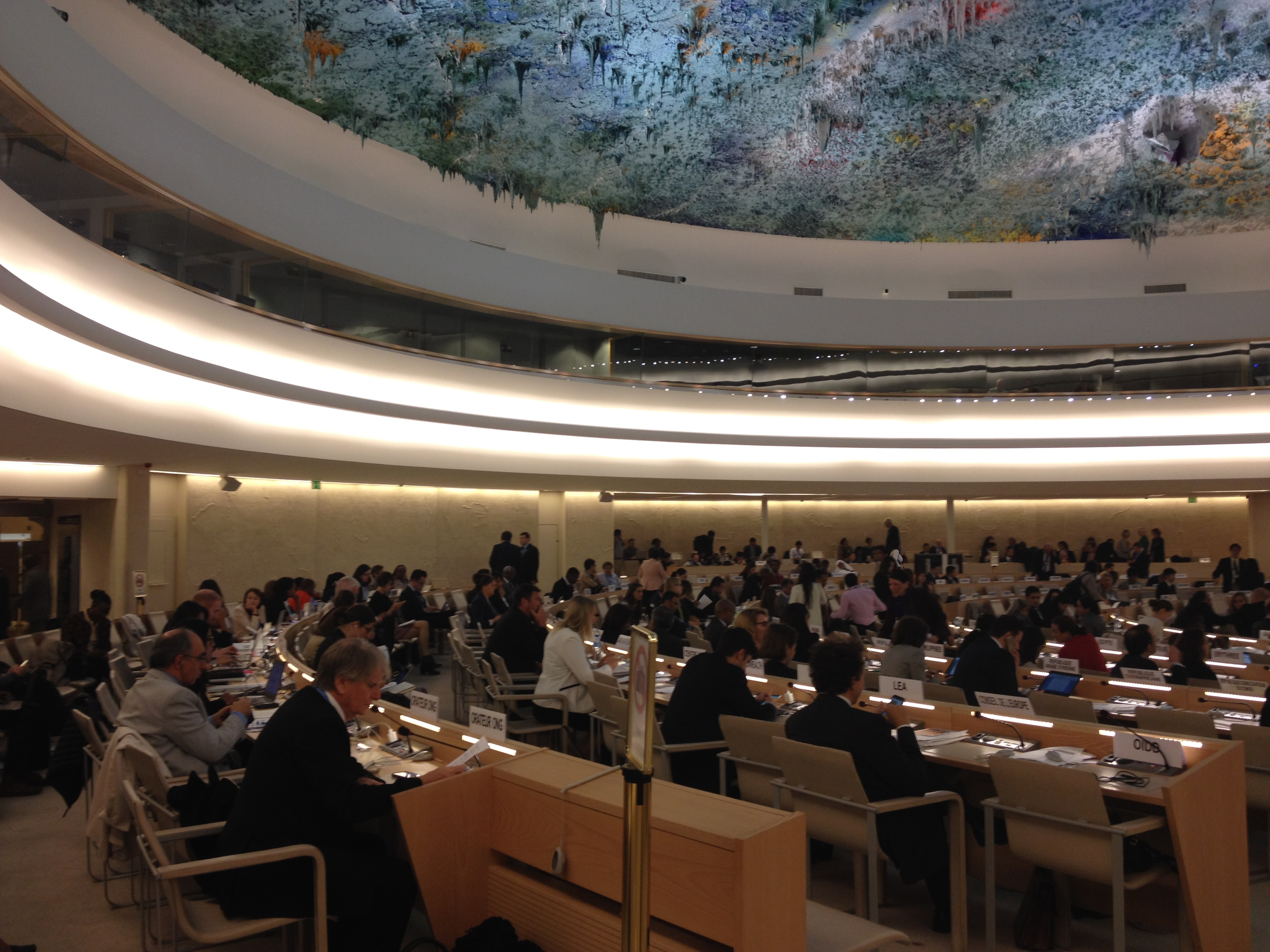 In 2015, the Human Rights Council adopted the Advisory Committee Report "Role of local government in the promotion and protection of human rights". The document saw great recognition of local governments as key actors in the promotion and defense of human rights at an international level.